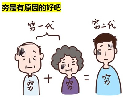 very poor